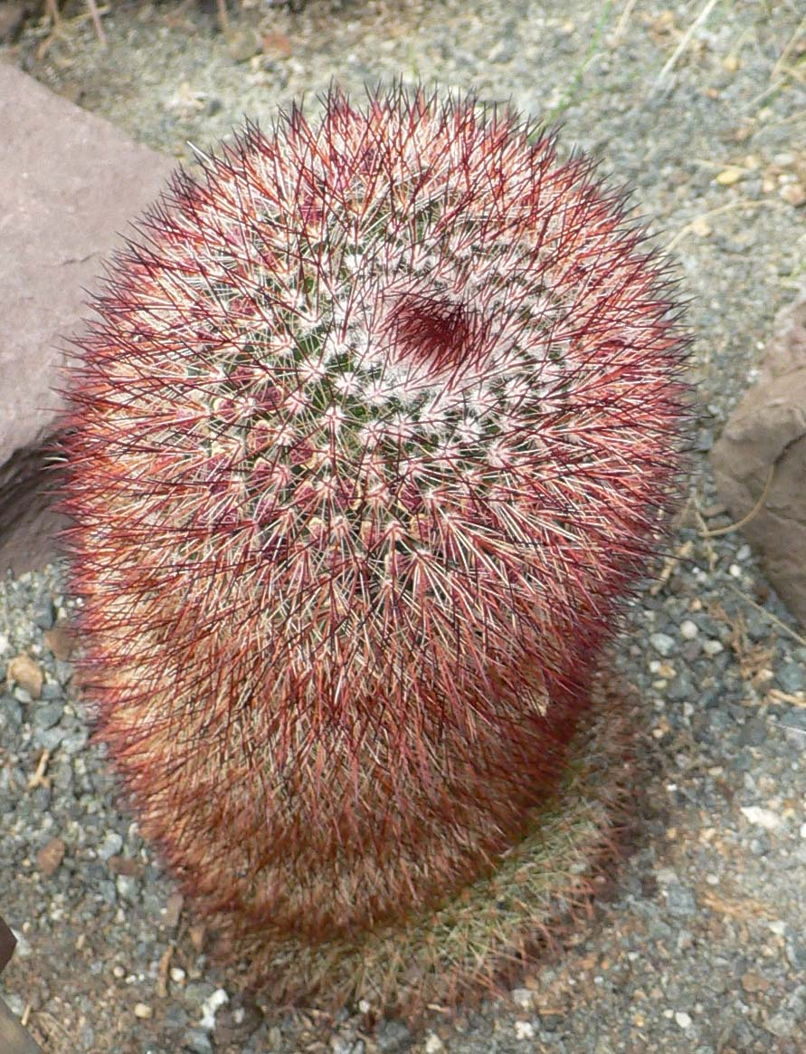 Pictures taken by myself at the United States National Botanical Garden, Washington DC, May 12, 2007.